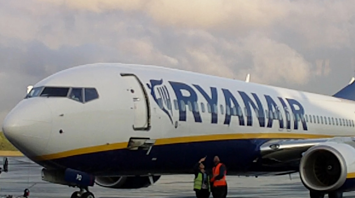 A Boeing 737-800 of Ryanair at Paris-Bouvais airport. Airstairs retract into the fuselage.